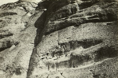 Bulgaria